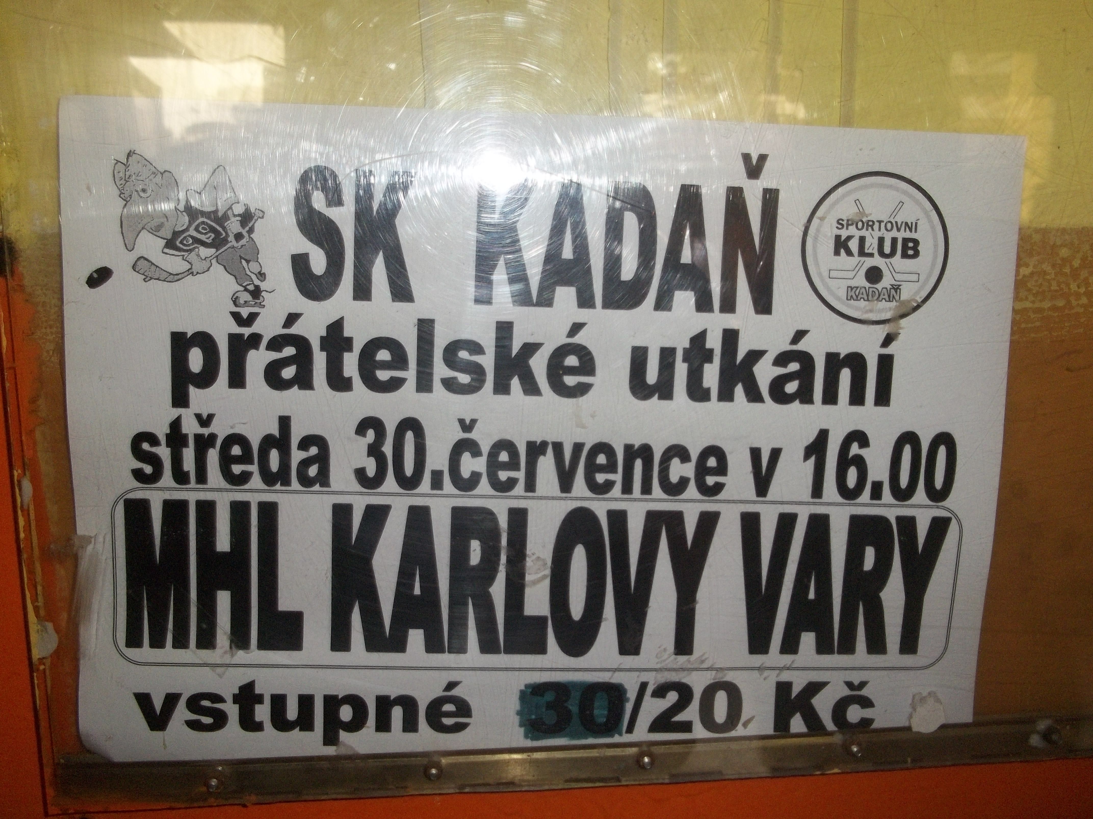 Poster of the match between Kadaň and HC Energie Karlovy Vary (junior team)